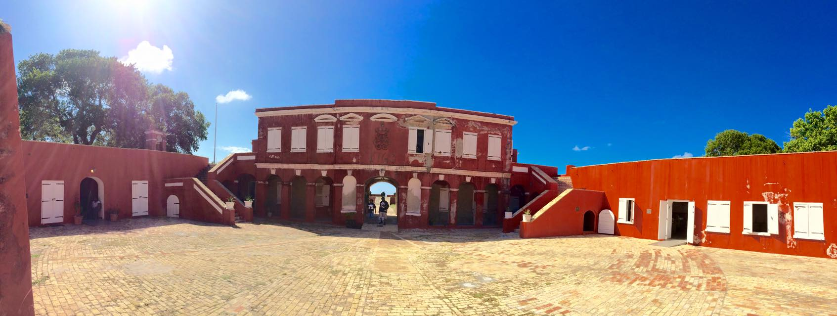 Fort Frederik, St. Croix, USVI -- internal courtyard facing west